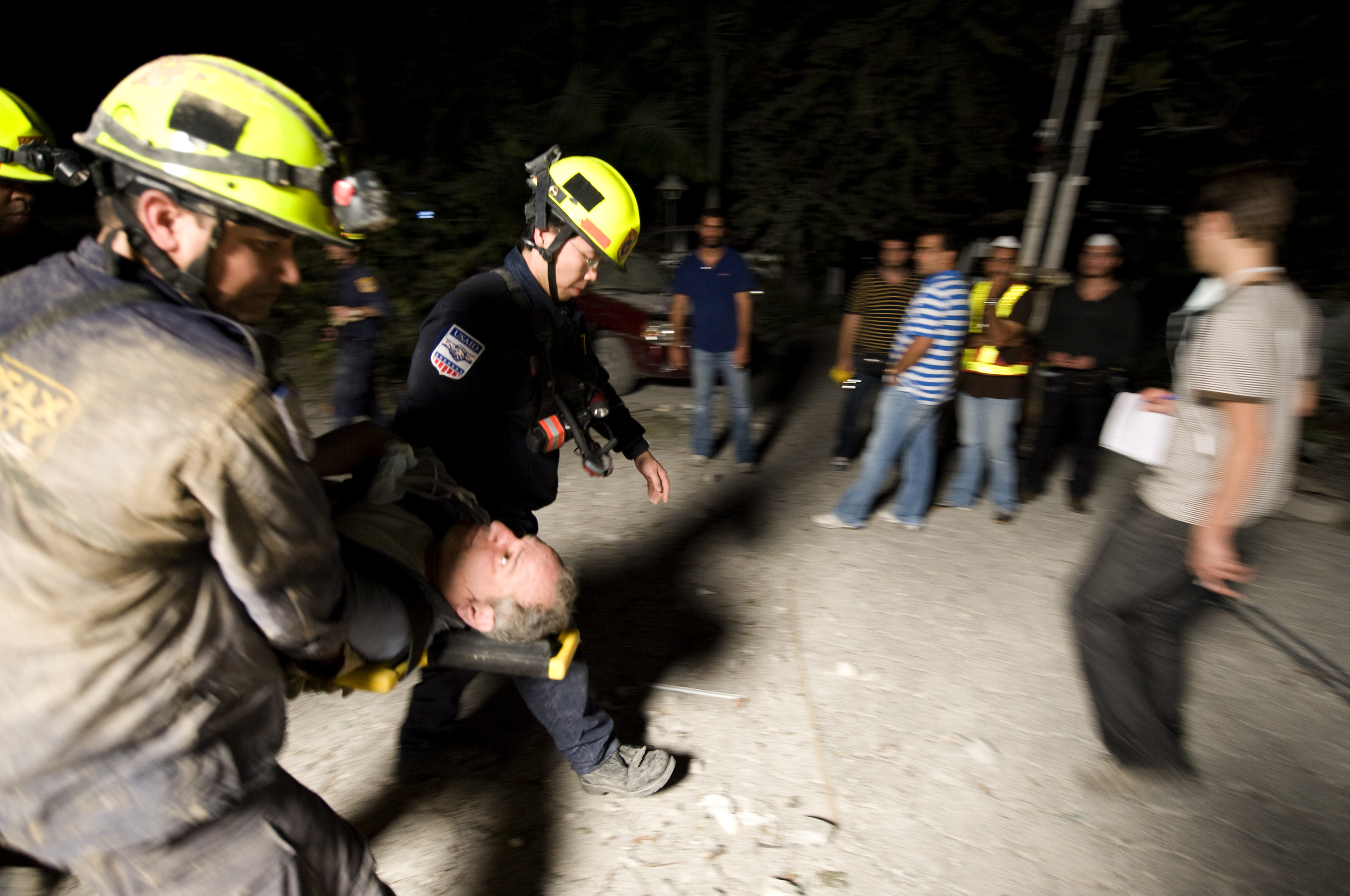 Richard Santos, from Washington D.C., is carried from the rubble of the Hotel Montana in port-au-Prince, Haiti Fri., Jan. 15 after spending more than 50 hours in the rubble. He was pulled from the debris by relief workers from France who have partnered with the U.S. Agency for International Development to support the massive relief efforts needed in the aftermath of Tuesday's 7.0 magnitude earthquake.